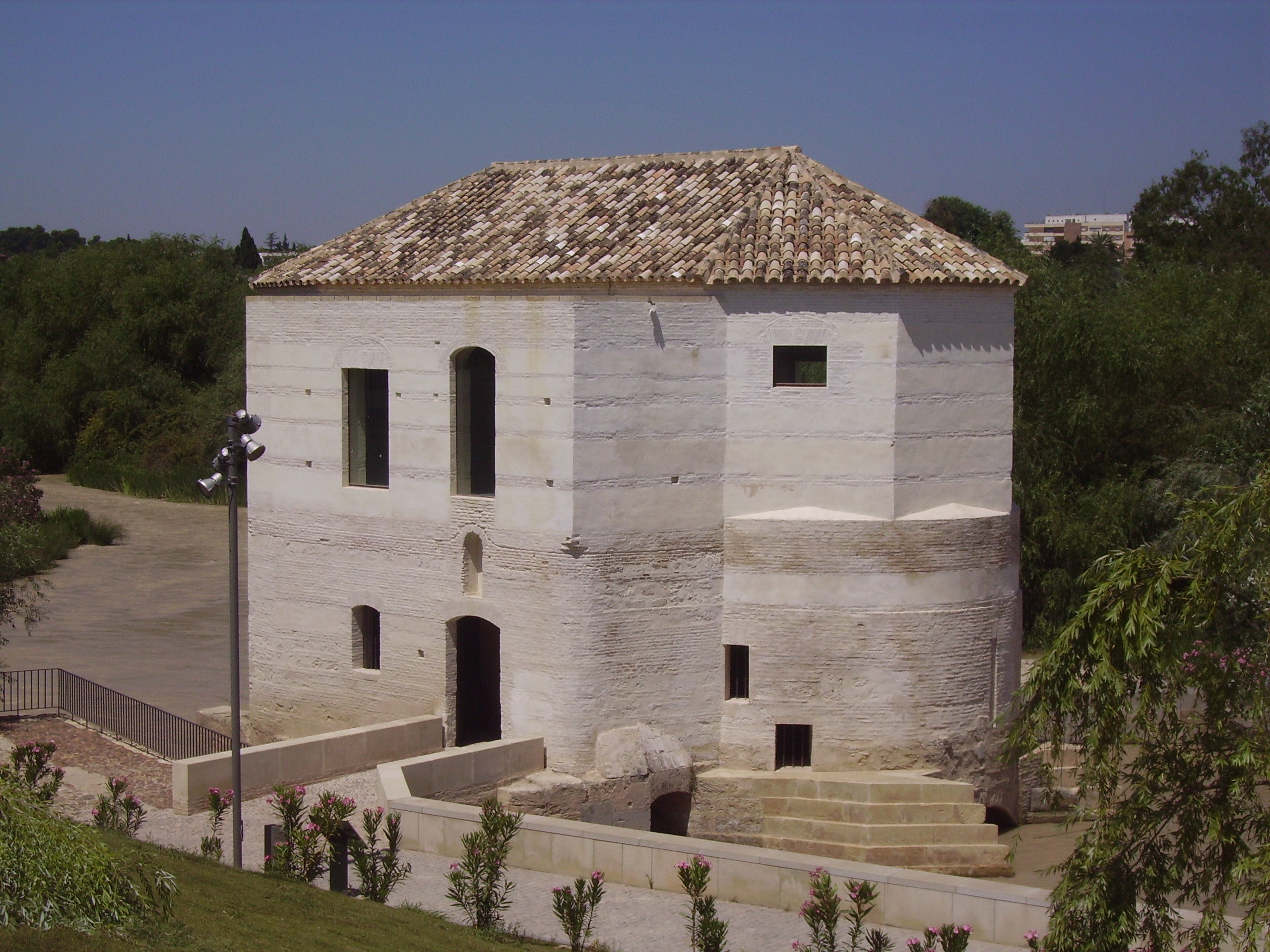 San Antonio Watermill in Córdoba (Spain).